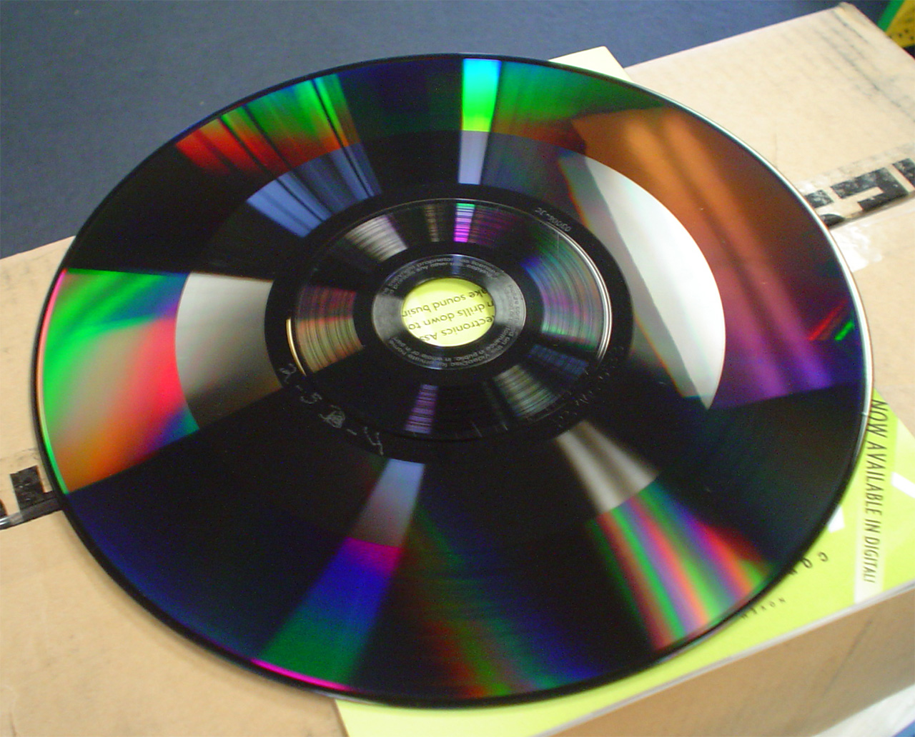 A CED disk with no protective coverings.